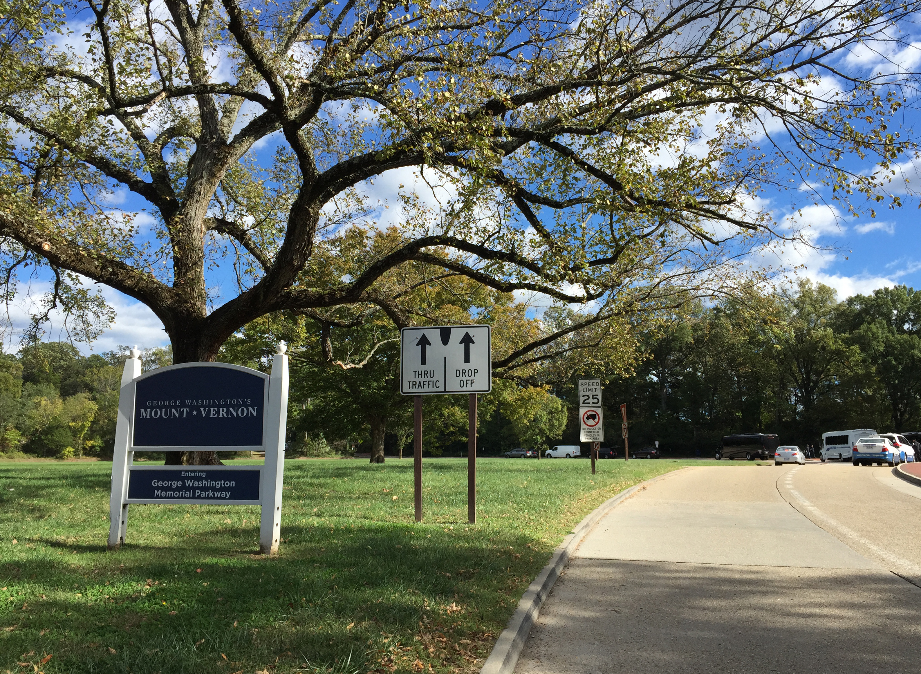 View north at the south end of the George Washington Memorial Parkway at Virginia State Route 235 (Mount Vernon Highway) in Mount Vernon, Fairfax County, Virginia